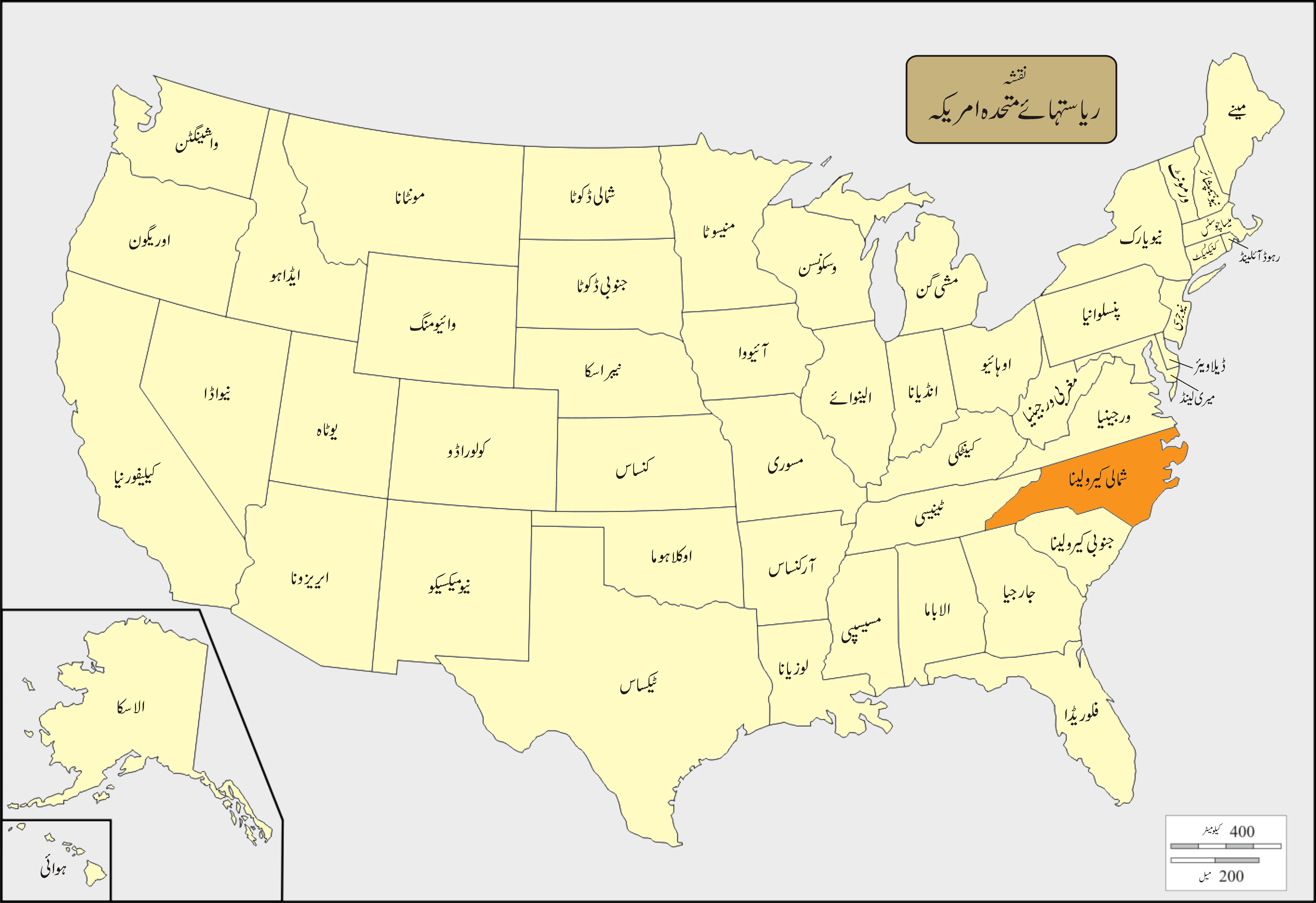 USA Names North Carolina